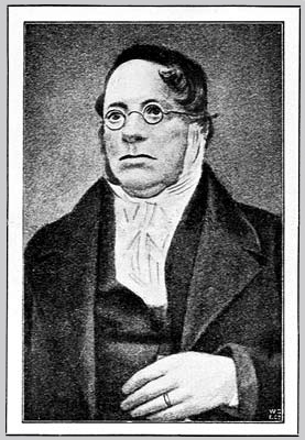 Selfportrait